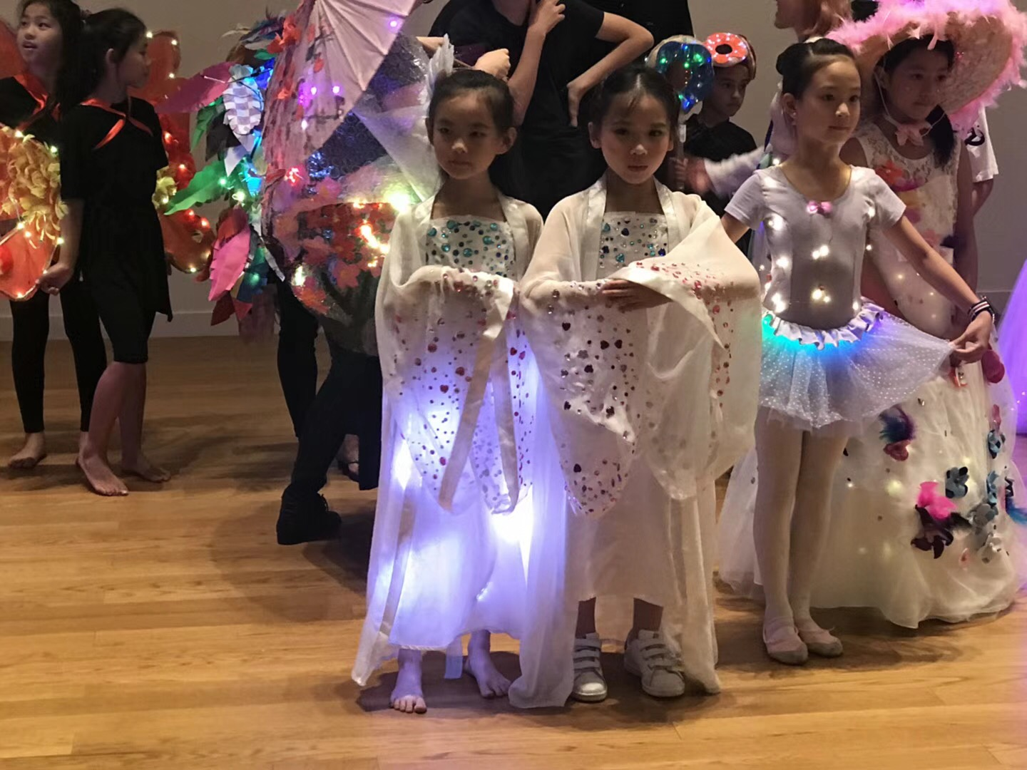 Students at the 2018 MakeFashion Edu show in Shekou, China.